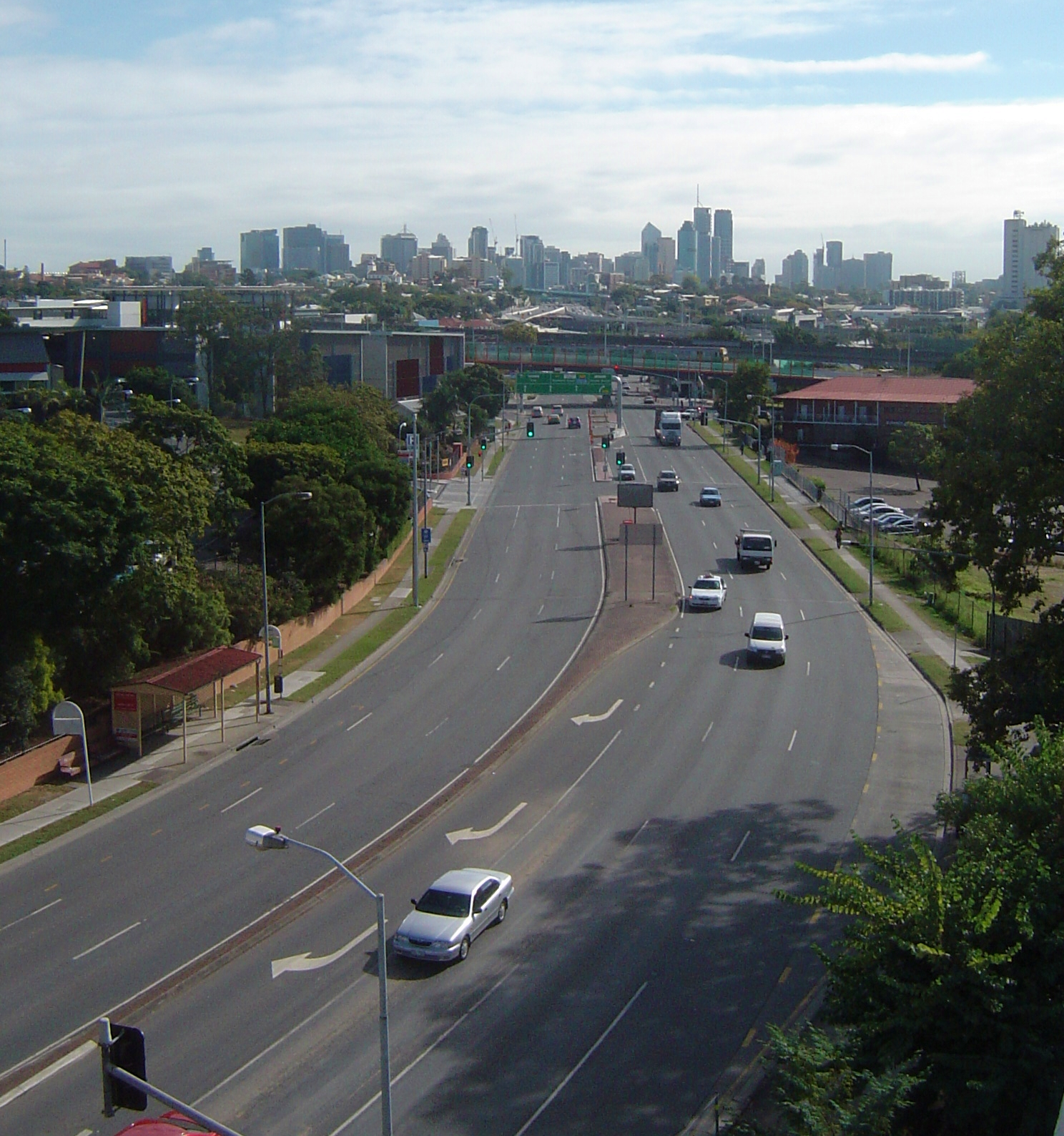 Photograph of Ipswich Road, Woolloongabba, Brisbane, Queensland, Australia